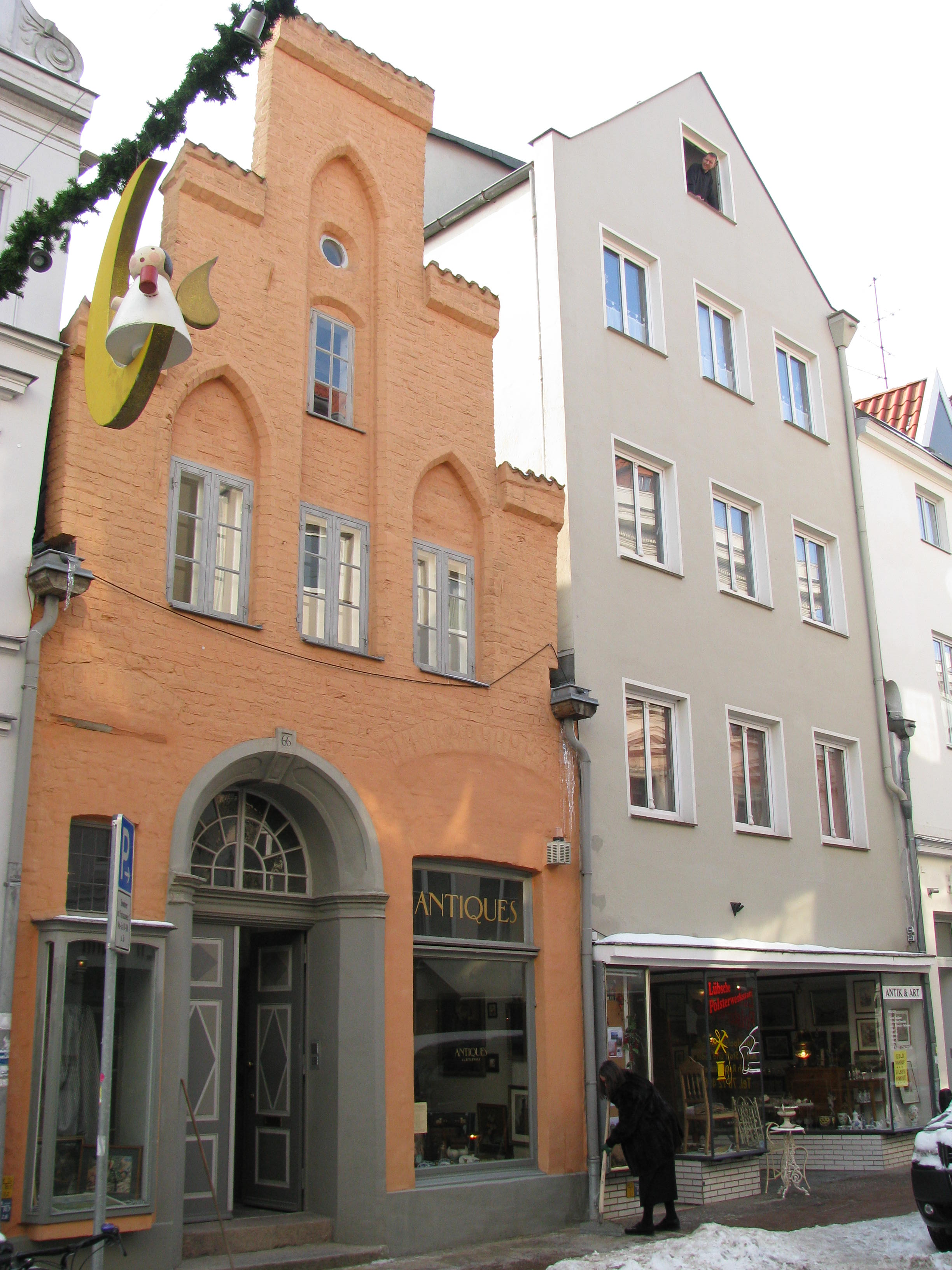 Right hand side: Johann Balhorn's house in Luebeck, Huexstrasse 64